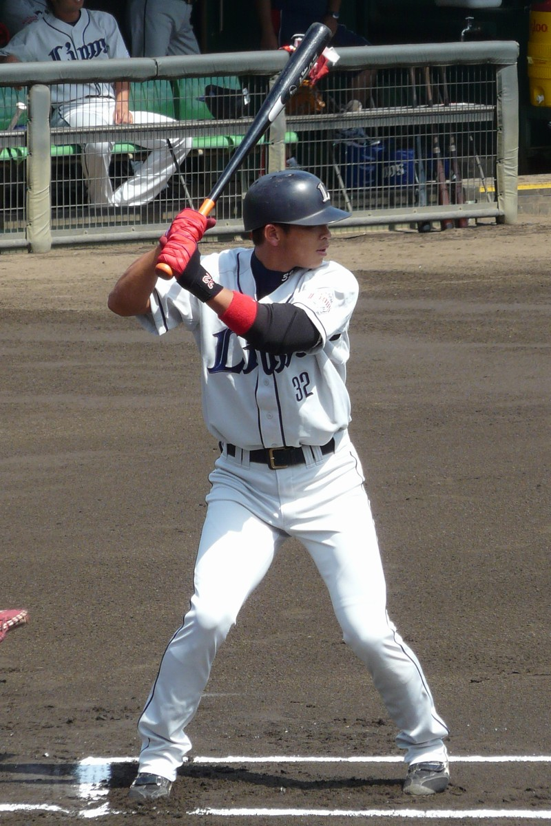 Hideto-Asamura